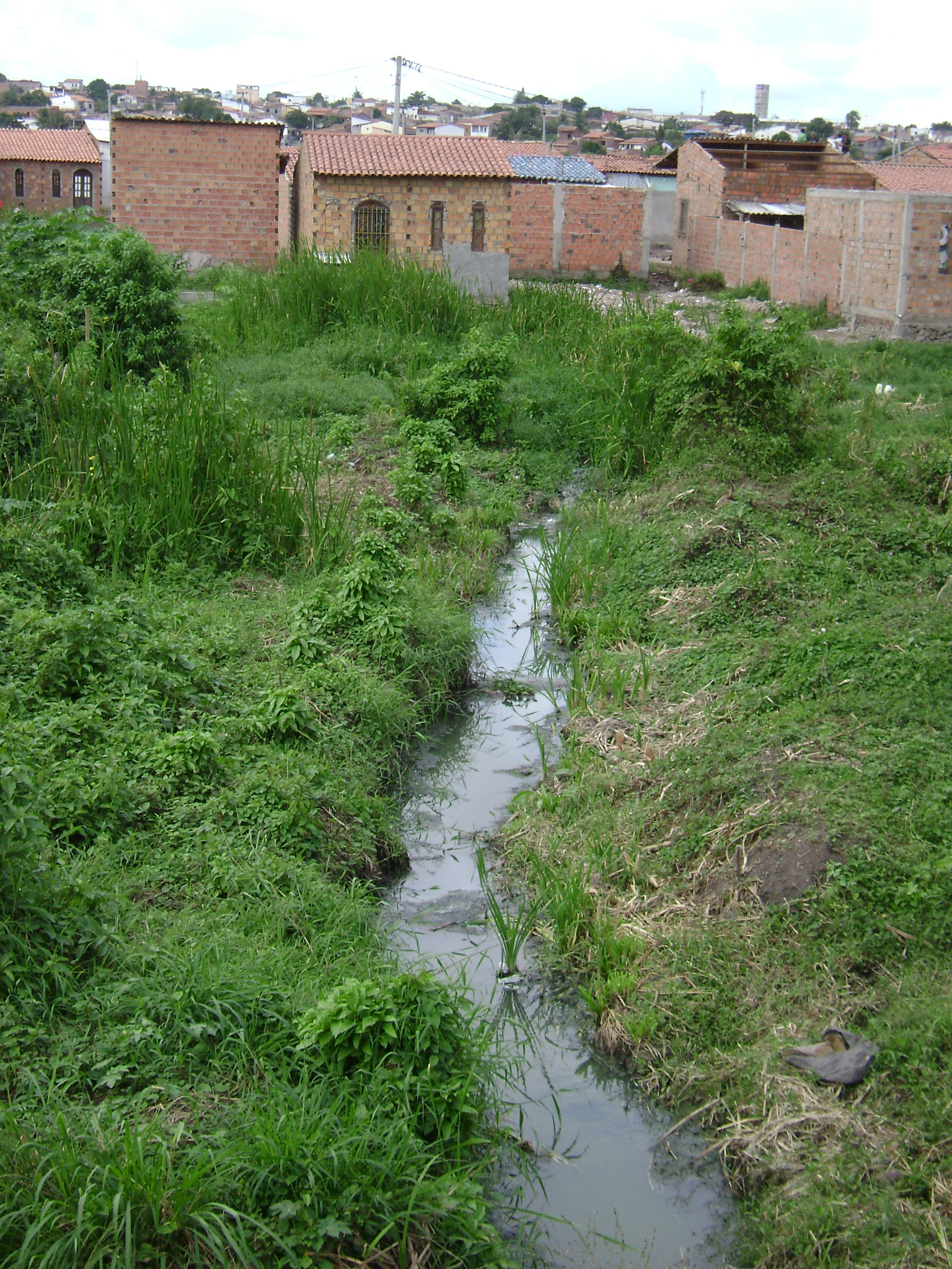 Favela no bairro Queimadinha, em Feira de Santana, Bahia, Brasil. No lugar existia a Lagoa do Prato Raso.